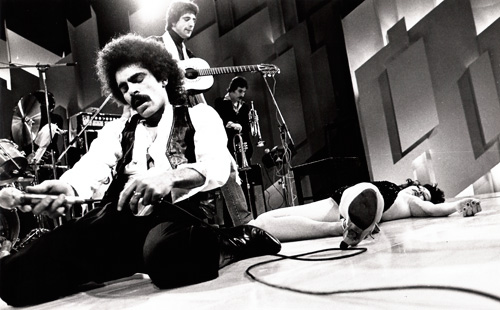 Jimmy Goings performing with Santa Esmeralda in Vina Del Mar, Chile (1979)